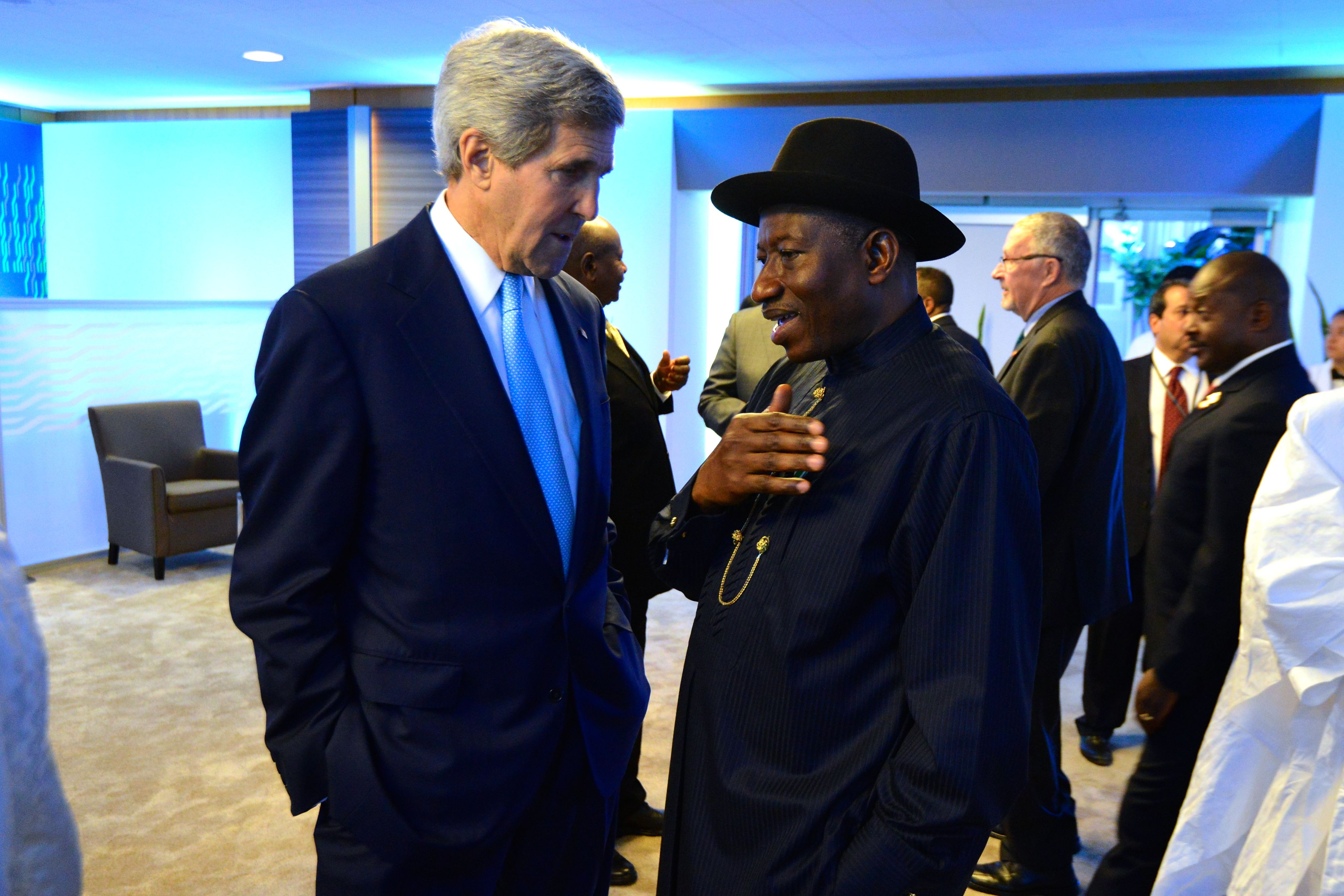 U.S. Secretary of State John Kerry greets Nigeria's President Goodluck Jonathan before the start of the U.S.-Africa Leaders Summit Session One on “Investing in Africa’s Future,” at the U.S. Department of State for the final day of the U.S.-Africa Summit in Washington, D.C., on August 6, 2014.